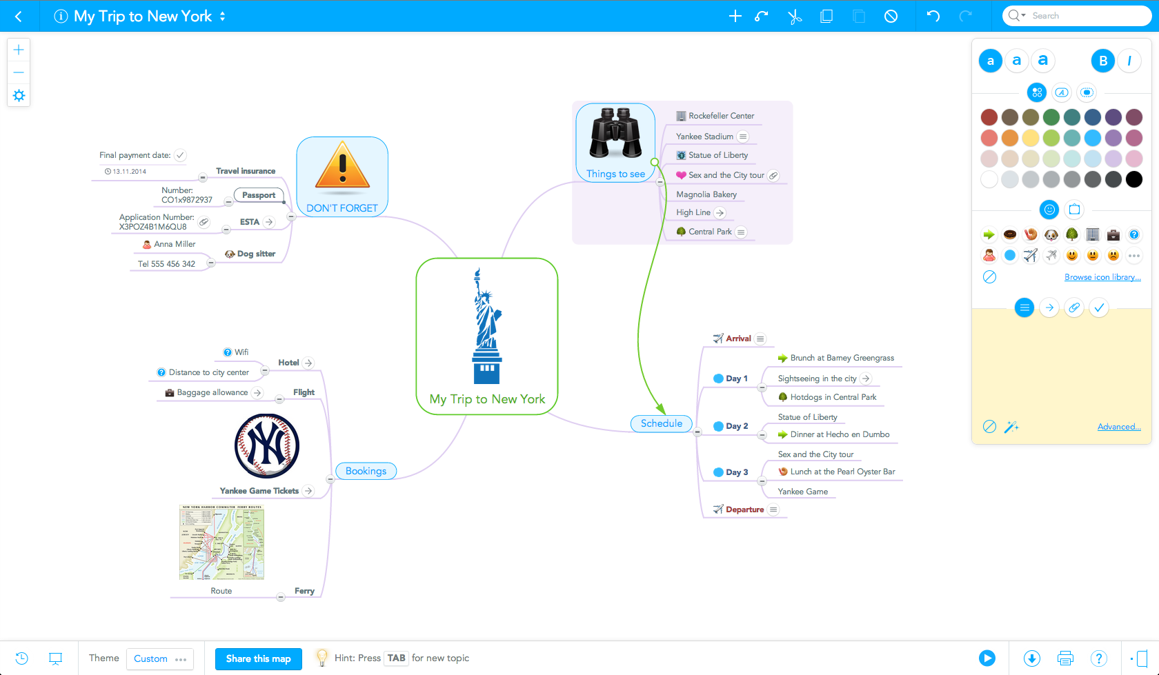 Screenshot of MindMeister's web application UI. Version: MindMeister 9 (2014)